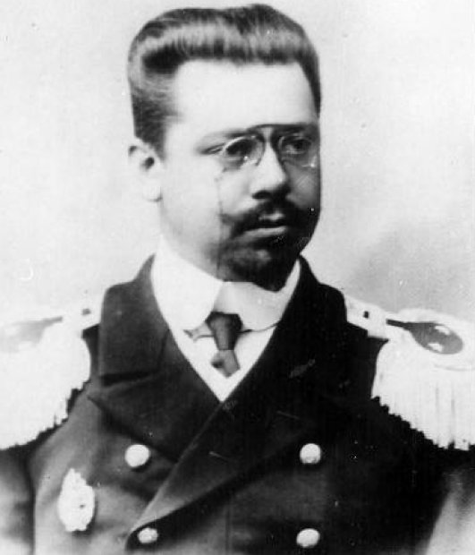 Fyodor Nikolaevich Ilyin (1873-1959), Russian naval officer, physician, writer